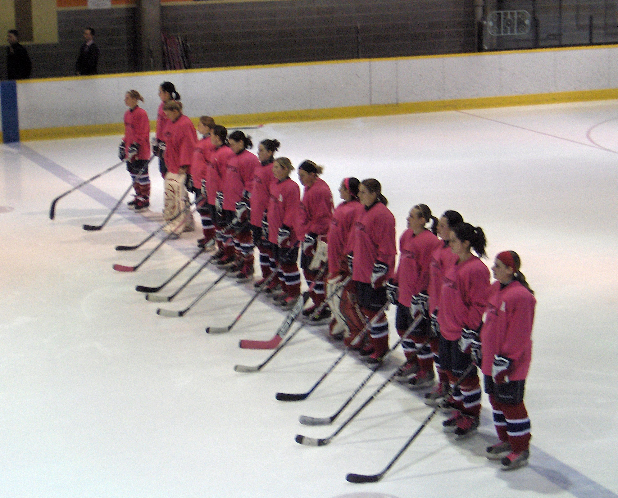 Hockey Game on to beat breast cancer: Montreal vs Boston ( Canadian Women Hockey League )